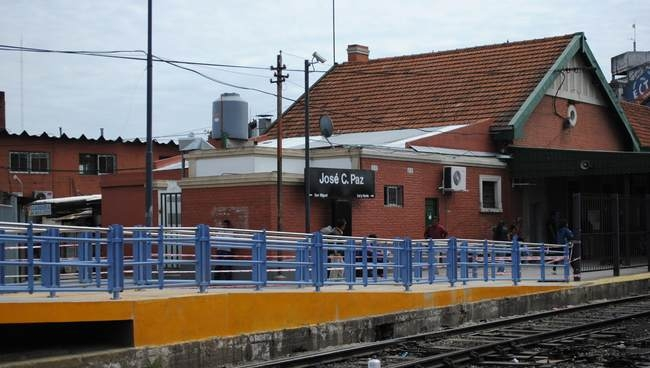 José C. Paz train station on the San Martin Line in Buenos Aires.